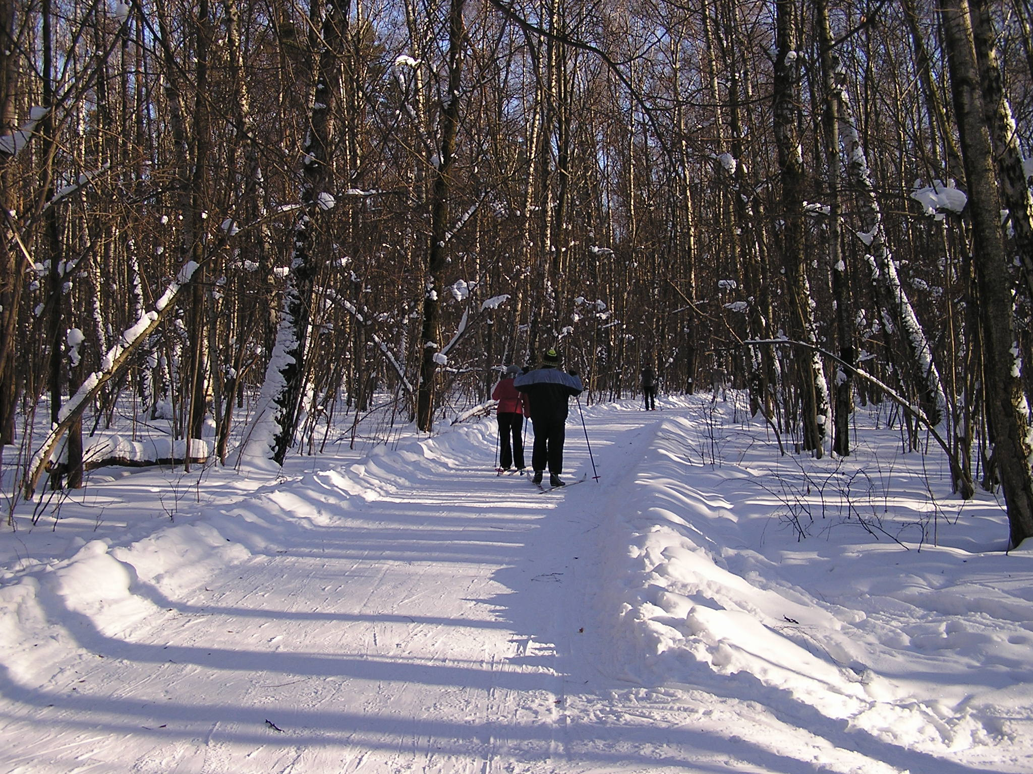 Winter in Bitsa Park